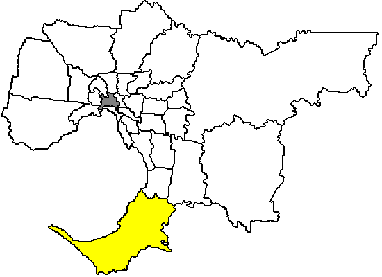 Map of Melbourne, Victoria (Australia), LGA of Mornington Peninsula Shire highlighted